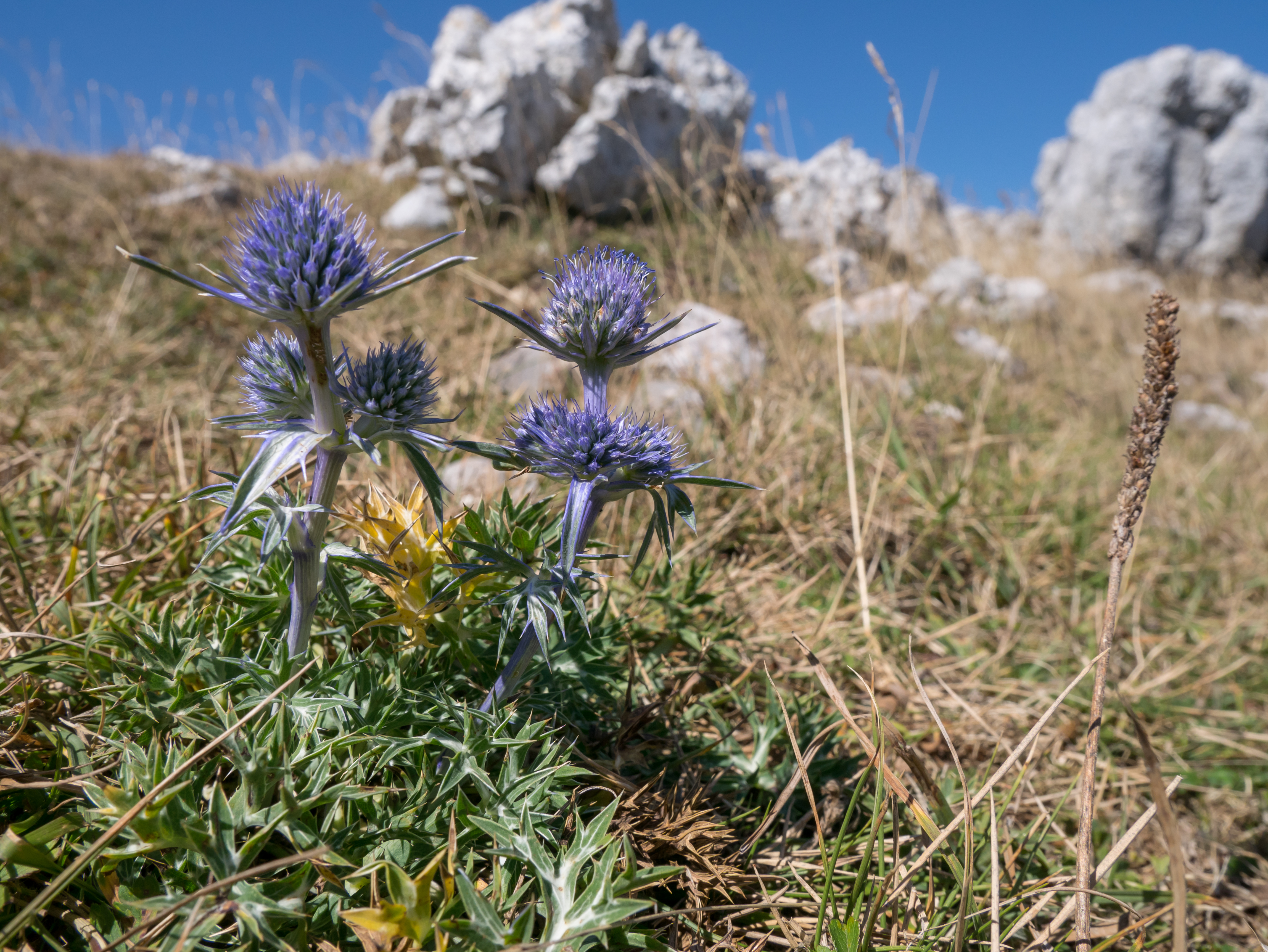 Eryngium bourgatii in the Sierra de Entzia mountain range. Álava, Basque Country, Spain